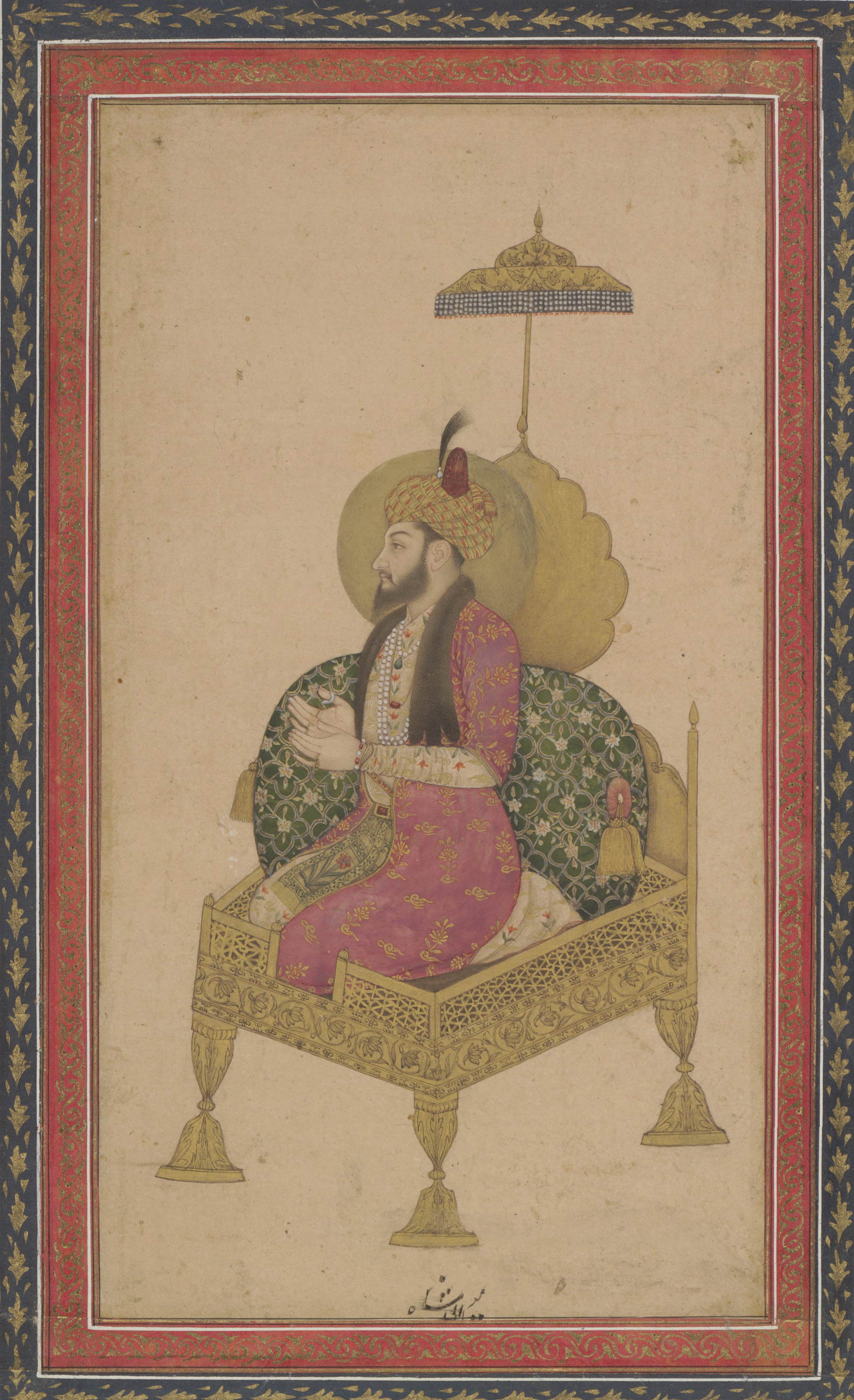 Miran Shah: Portrait of a prince seated on a golden throne, facing left, wearing a purple dress